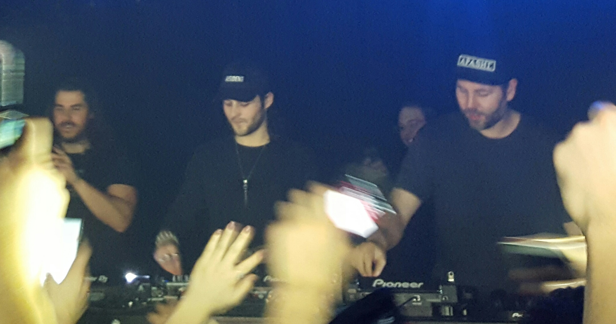 Black Tiger Sex Machine photographed in Montréal, Québec, Canada at Le Belmontq.